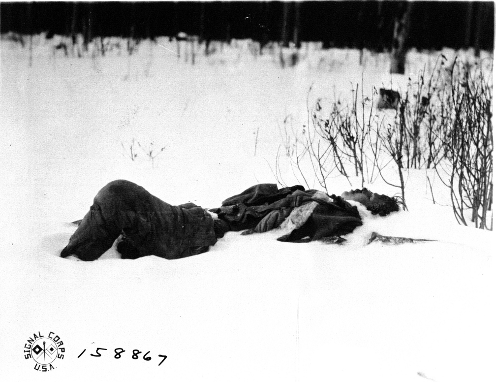 Bolshivik soldier, one of a number killed in an attempted flank attack on the positions held by allied troops on the Obozerskaya road at Verst 16, 339th Inf. 85 Div. Bolshie Ozerka Front, Russia. (Official U.S. Army Signal Corps caption for photo 158867). Location Village of Bolshie Ozerka, Russia.